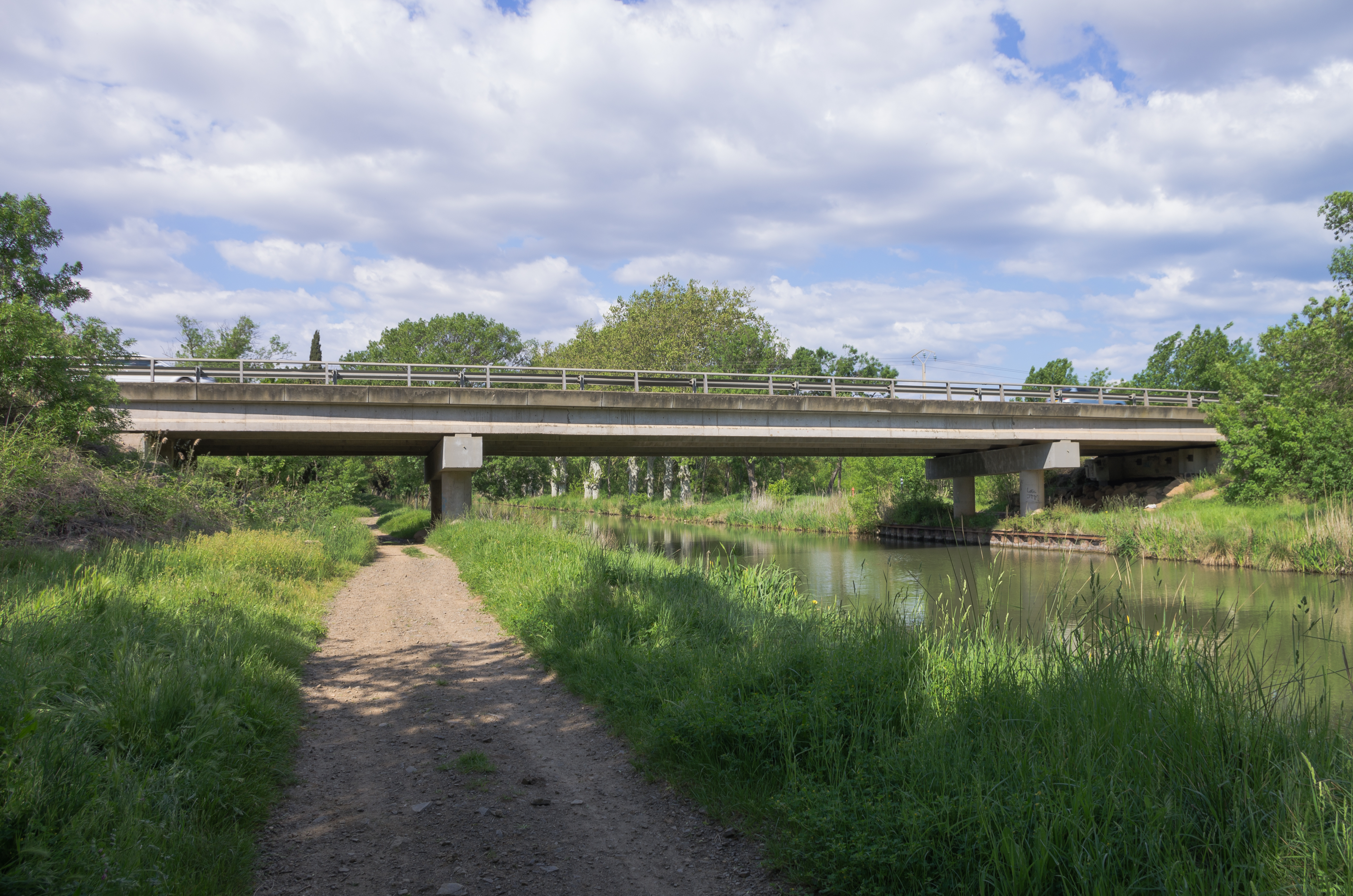 The bridge of the D612 over the Canal du Midi, UNESCO World Heritage Site, Vias, Hérault, France.